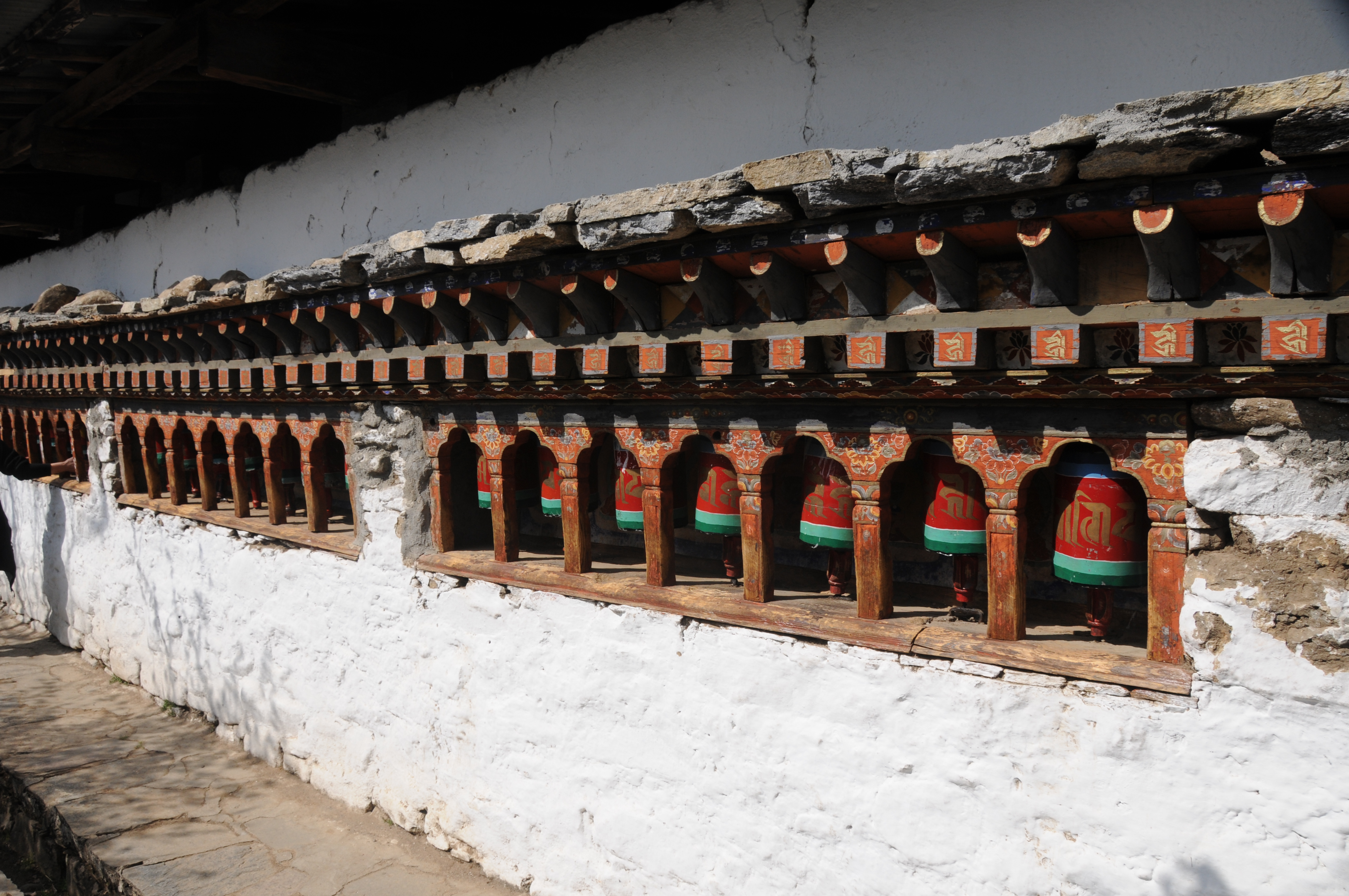 Kyichu Lhakhang temple in he Paro Valley, Bhutan